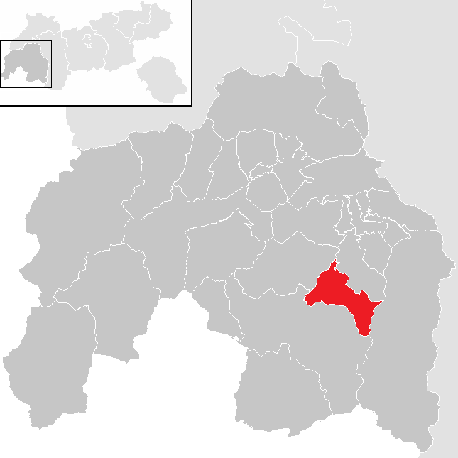 District Landeck